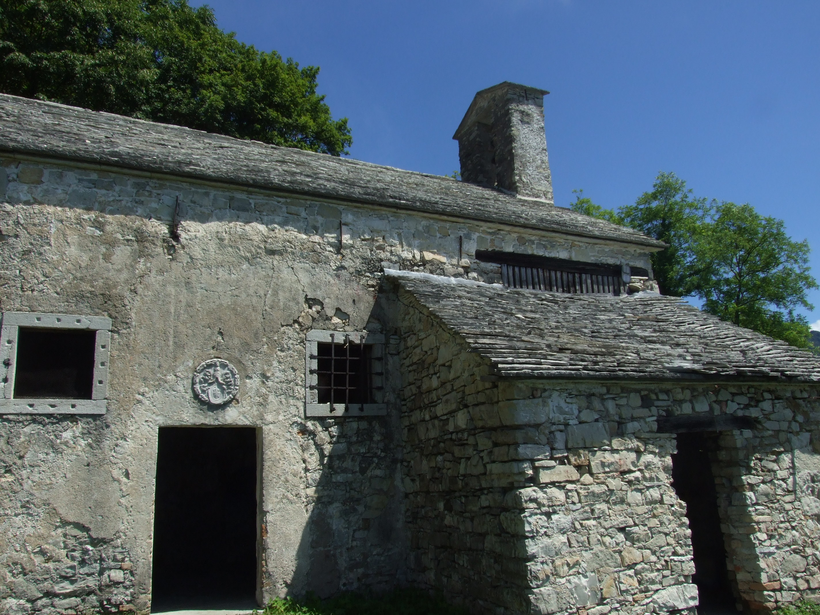 The hermitage of saint Andrea, over the town of Polpet, (mount Serva)